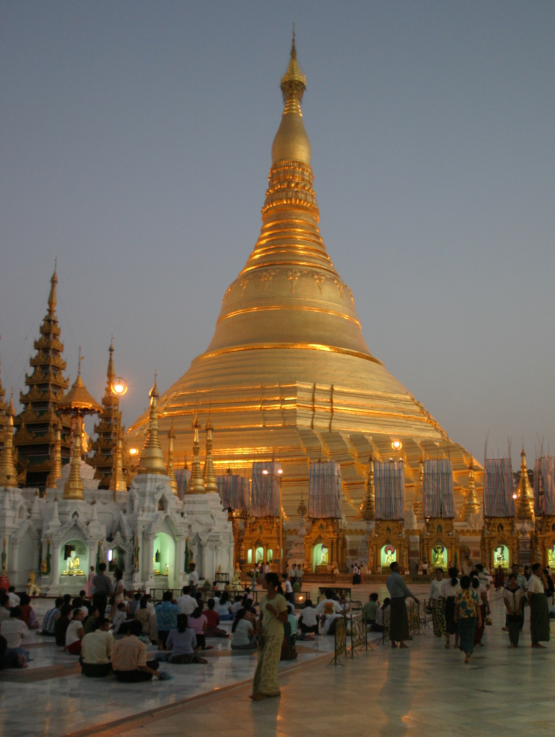 Shwedagon pagoda in Yangon in Myanmar.